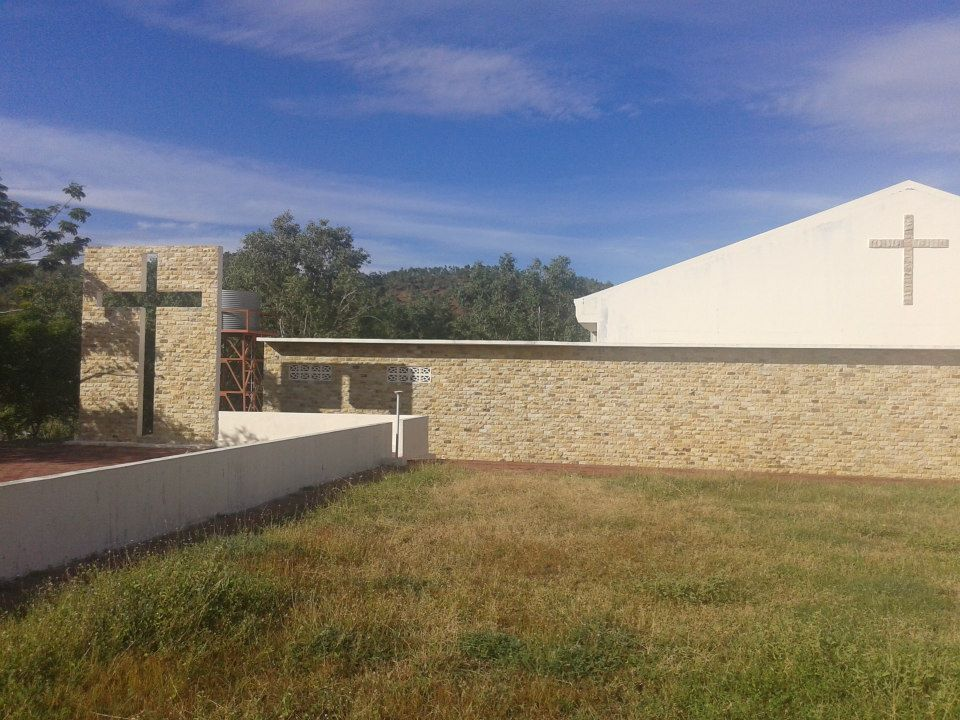 Ioannes Paulus II Monument in Tasitolu